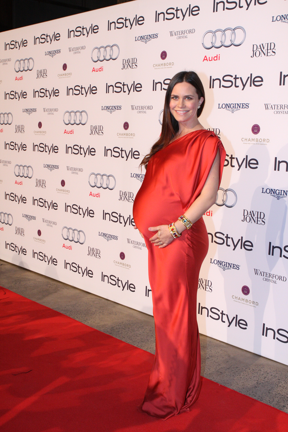 Actress Saskia Burmeister at the InStyle Women Of Style Awards